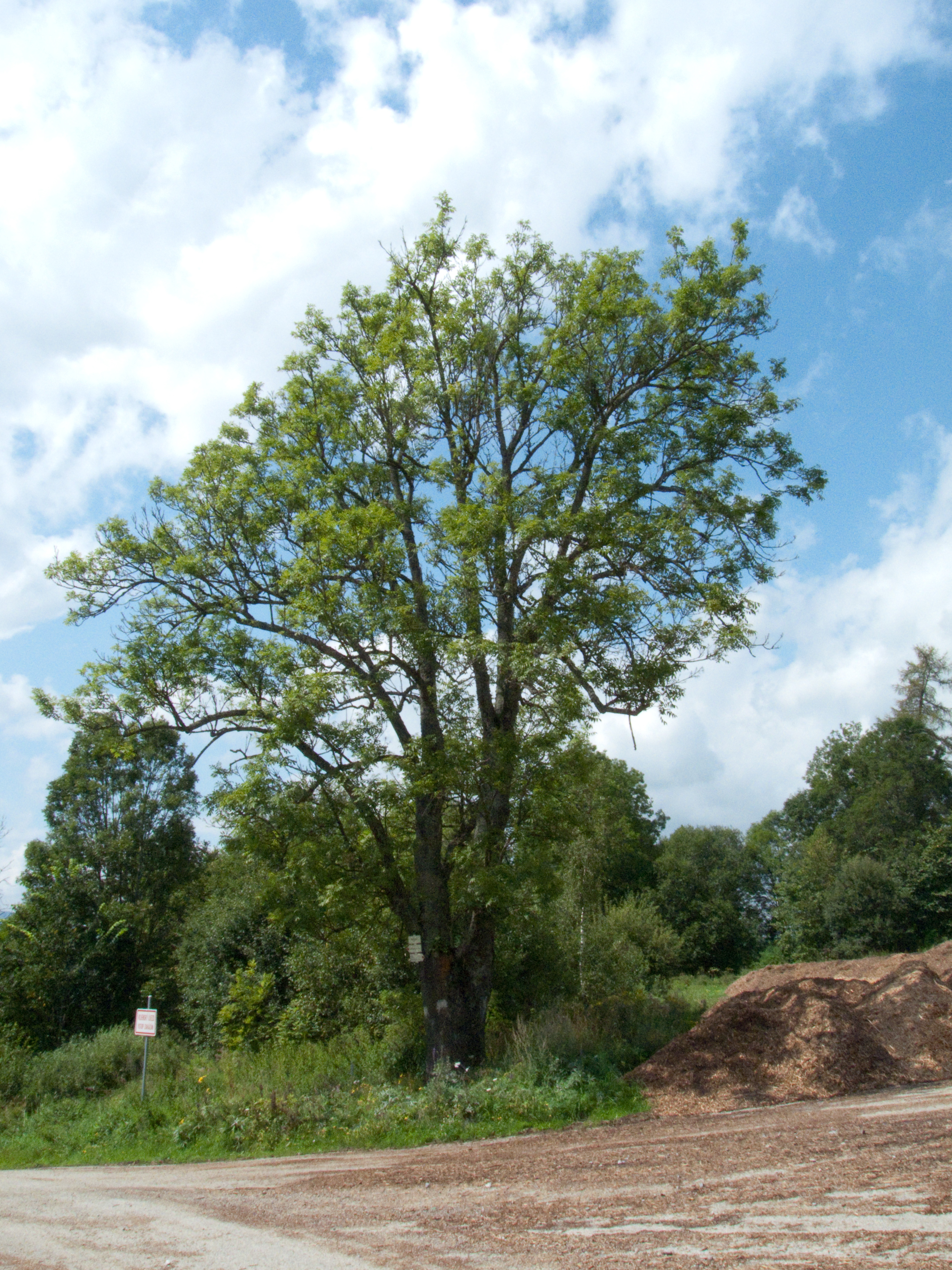 Maňávka, Military area Boletice, Český Krumlov district, Czech Republic